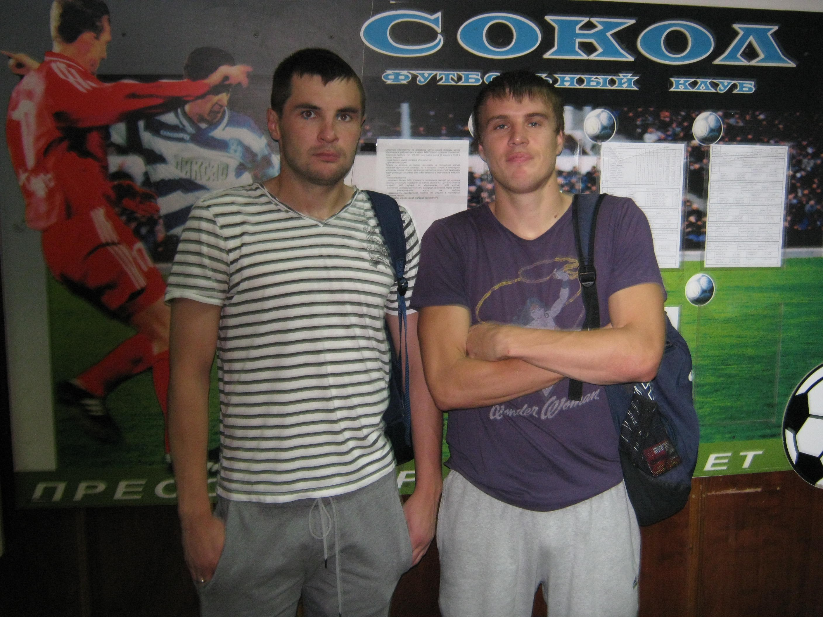 Dmitri Vladimirovich Timachyov (on the left) and Georgi Vladimirovich Smurov (on the right), football players of PFC "Sokol" Saratov.